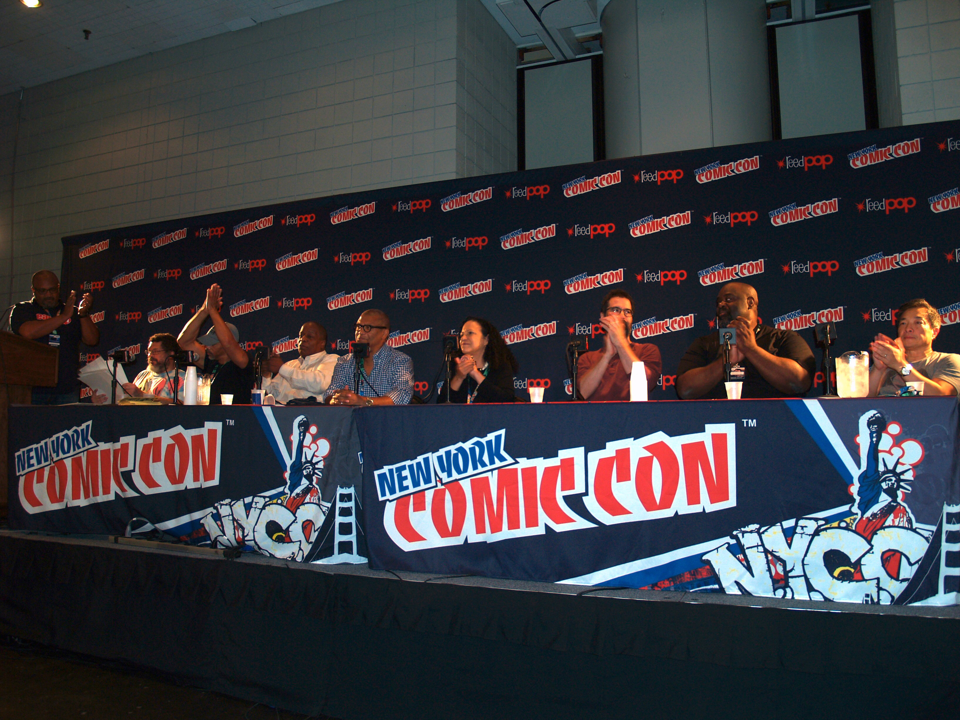 "The Return of the Dakota Universe" panel discussion on Thursday, October 5, 2017 at the Jacob K. Javits Convention Center in Manhattan, Day 1 of the 2017 New York Comic Con. From left to right: Dan Evans (at the podium), Kyle Baker, Denys Cowan, Derek T. Dingle, Reginald Hudlin, Alice Randall, Greg Pak, Ken Lashley, and Jim Lee. This photo was created by Luigi Novi. It is not in the public domain, and use of this file outside of the licensing terms is a copyright violation.